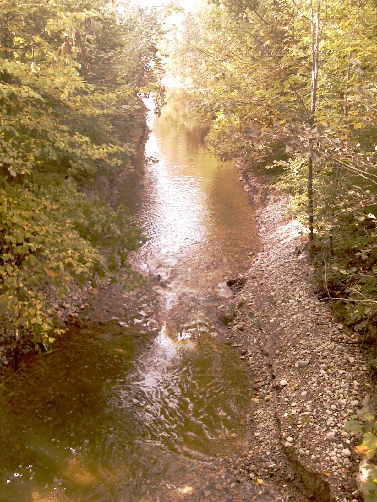 Chämtnerbach near its mouth to Lake of PfäffikonEsperanto: Rivereto Chämtnerbach proksime de ĝia alfluo al Lago de Pfäffikon